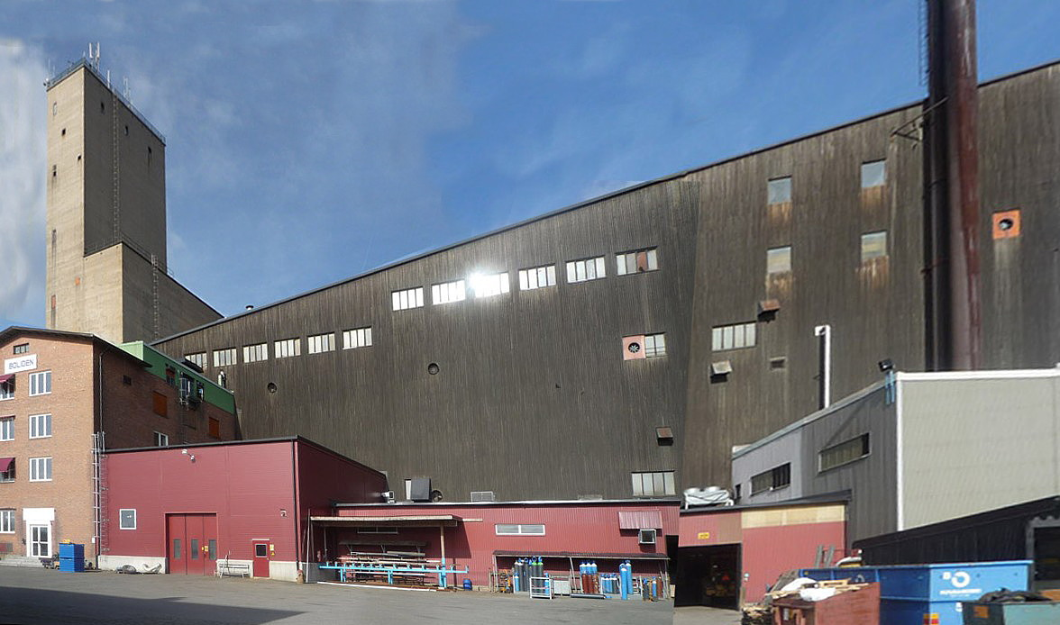 The Mineral processing plant of Boliden AB in Boliden, north Sweden. Collage of three photos (taken by the author).